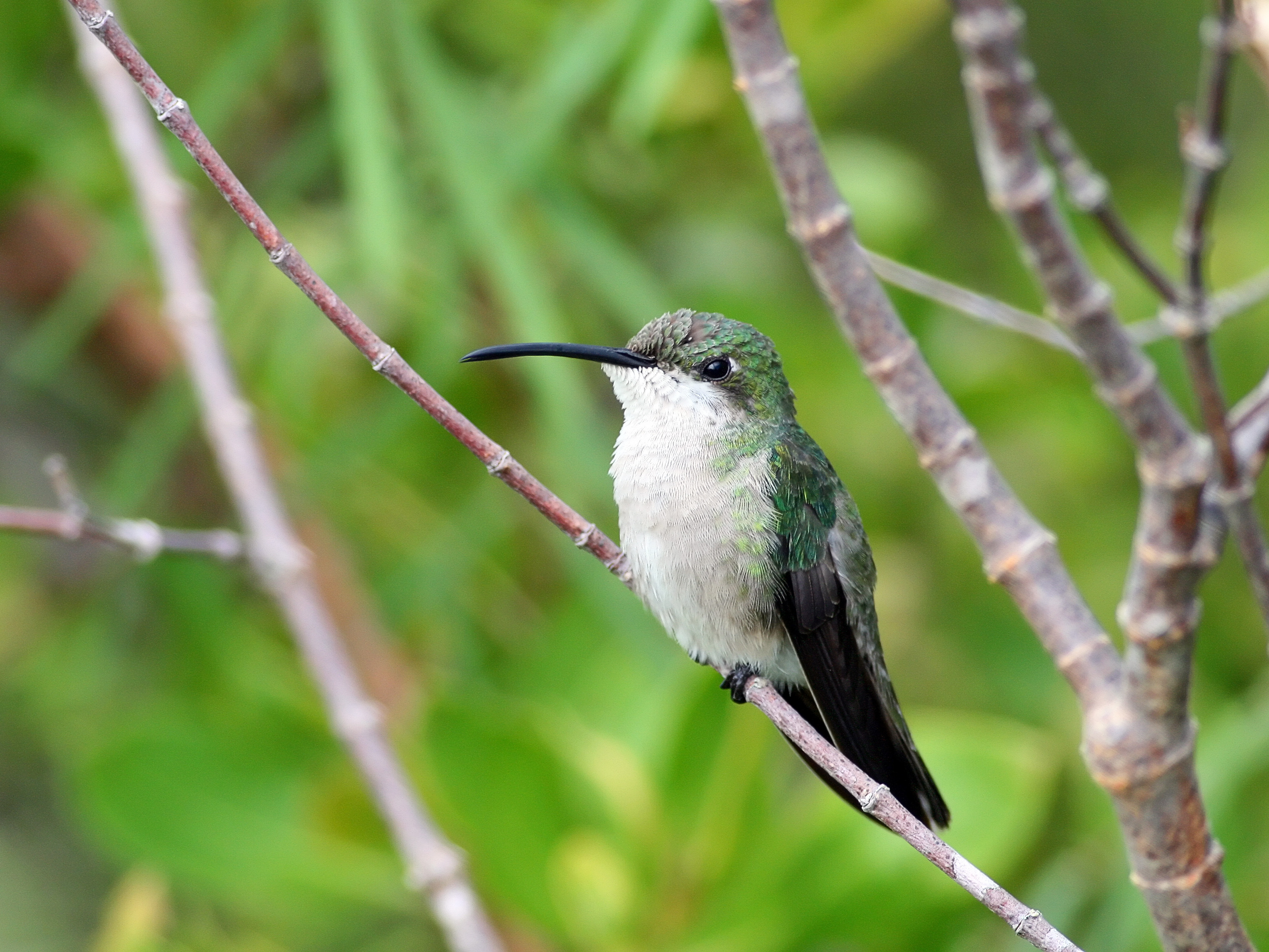 Antillean Mango in Guayama, Puerto Rico.